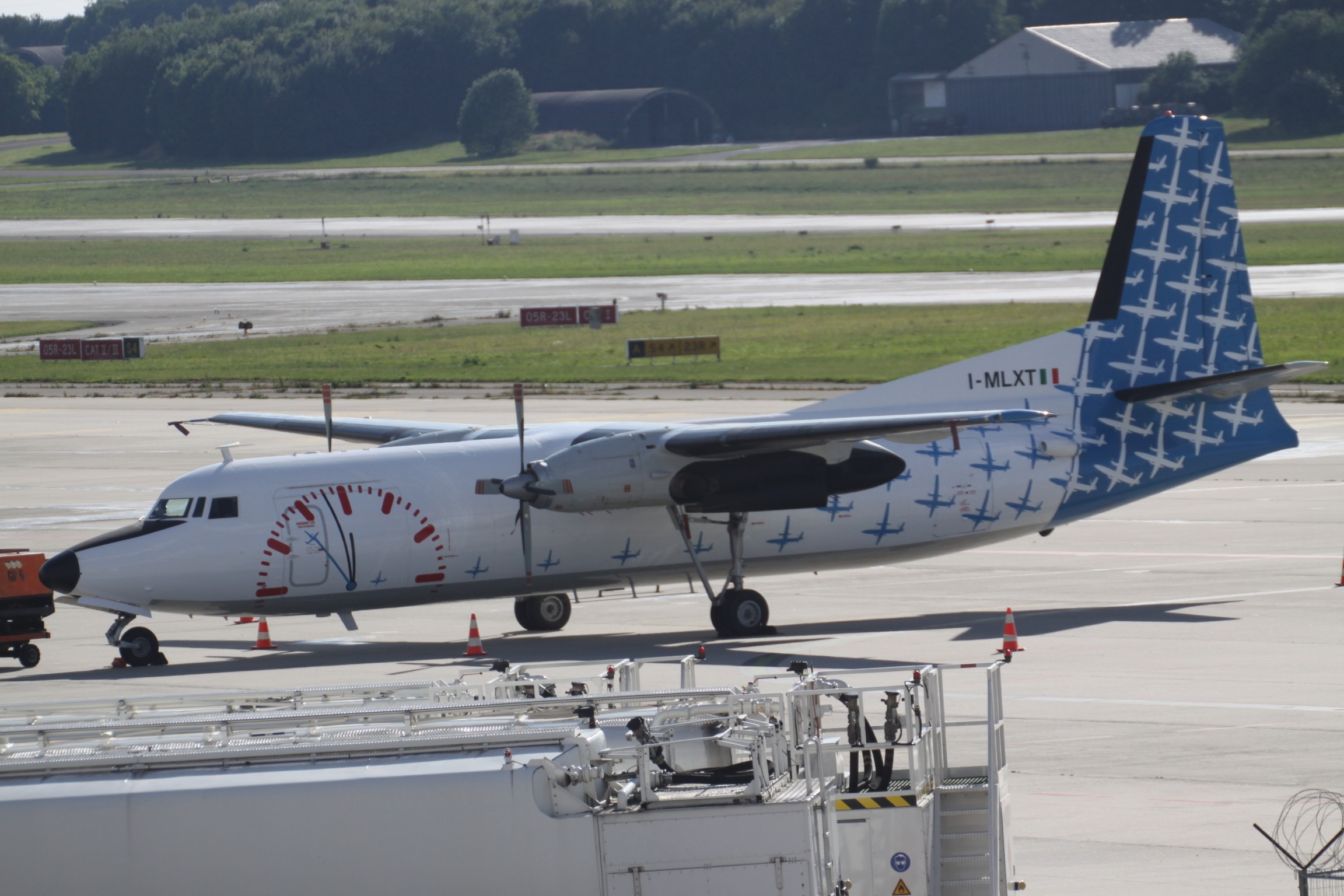 At Liege